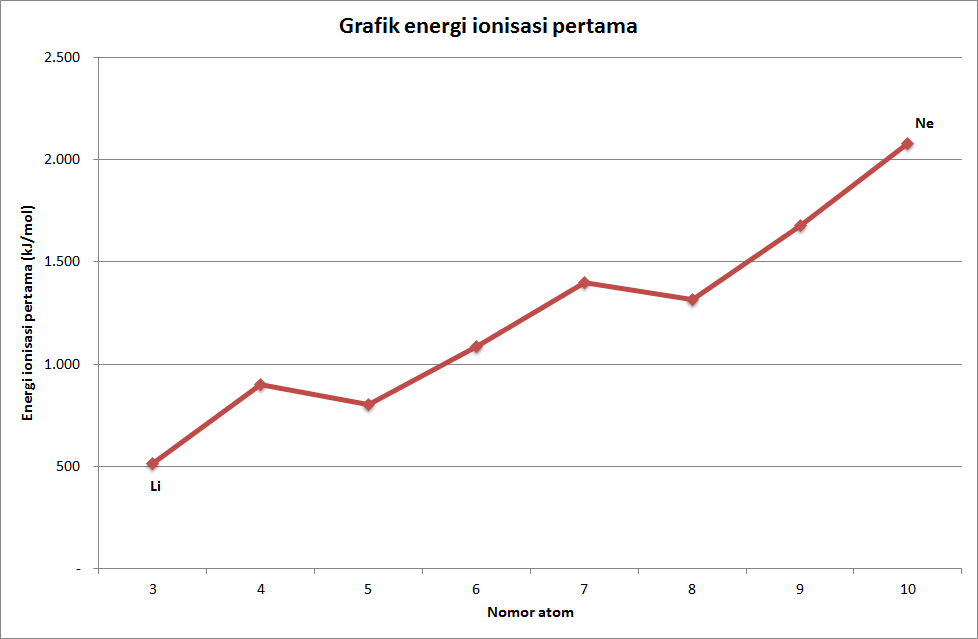 Graphical trend of period 2 elements for the first ionisation energy